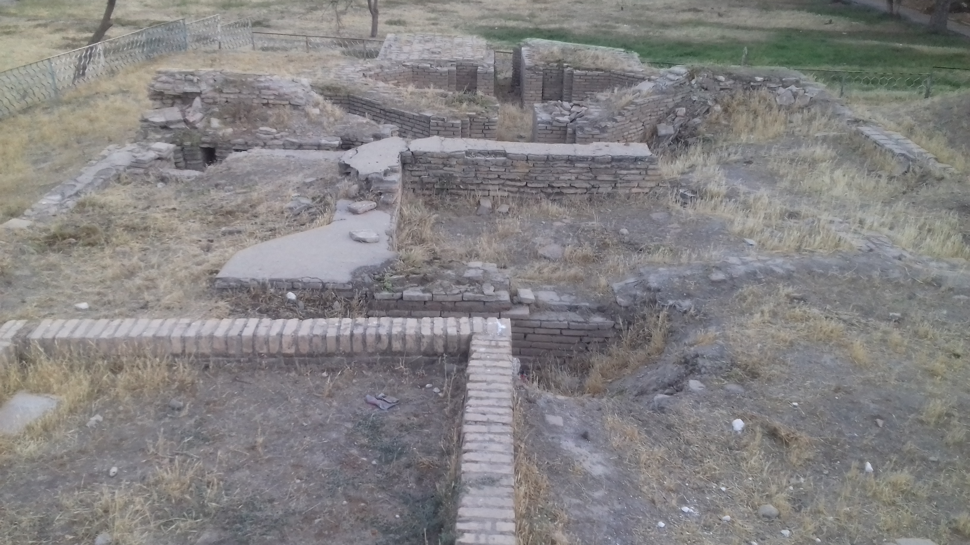 Amir Temur's Kuksaray palace ruins in Samarkand (Uzbekistan)